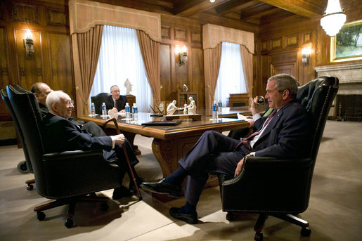 President George W. Bush (right) meets with the leadership of The Church of Jesus Christ of Latter-day Saints during his visit to Salt Lake City. Seated clockwise are: the late Gordon B. Hinckley, President; Thomas S. Monson, First Counselor (obscured); James E. Faust, Second Counselor (obscured), and F. Michael Watson, Executive Secretary.